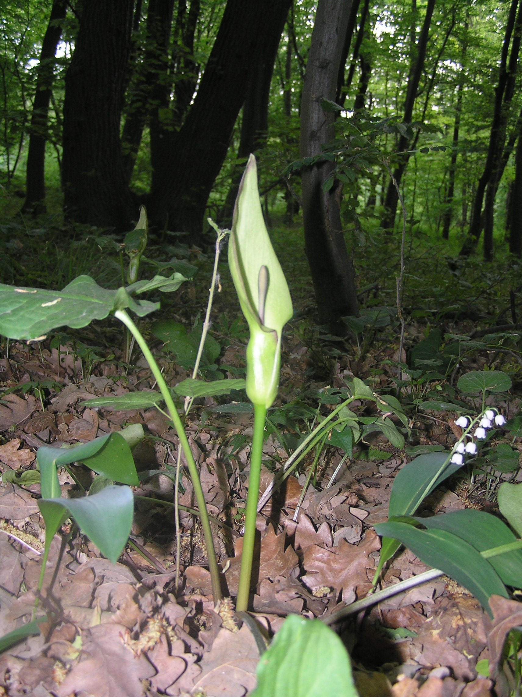 Arum cylindraceum, Břeclav, Southern Moravia, Czech Republic